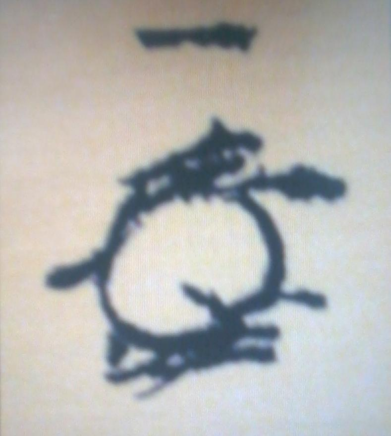 sign of Kim Jangsaeng, Korean Joseon Dynastys Neo-Confucian scholar, politicians